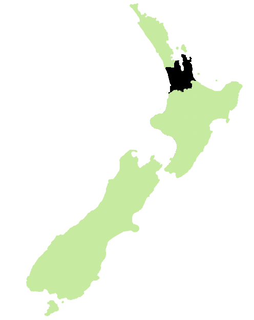 Map showing the Hauraki-Waikato electorate based on boundaries used for the 2008 and 2011 elections.Adapted from File:Te tai hauauru electorate 2008.png and File:Waiariki electorate 2008.png by User:Dramatic.